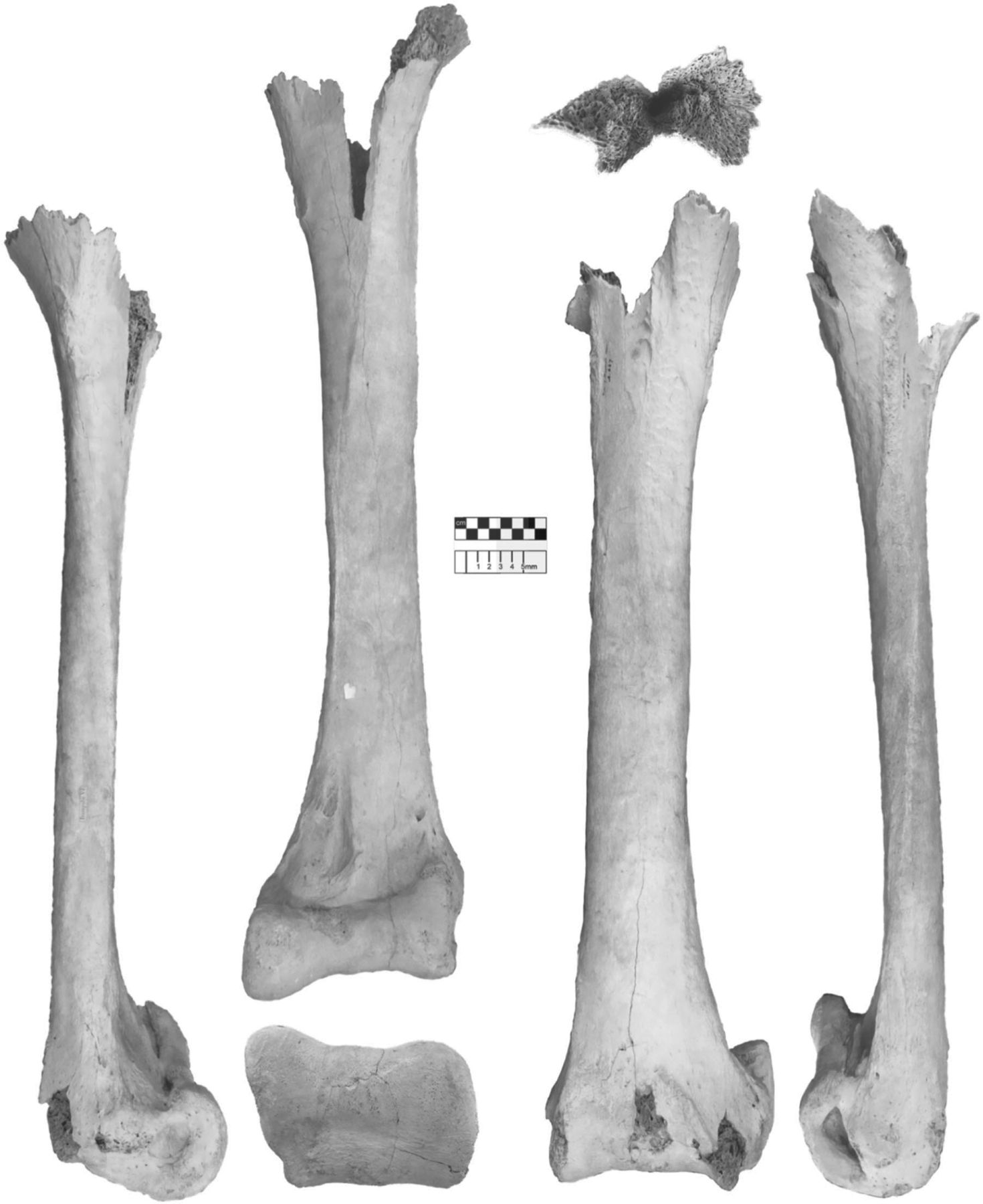 Vorombe titan, tibiotarsus (NHMUK A437), Itampolo (Itampulu Vé), Madagascar; part of syntype series.